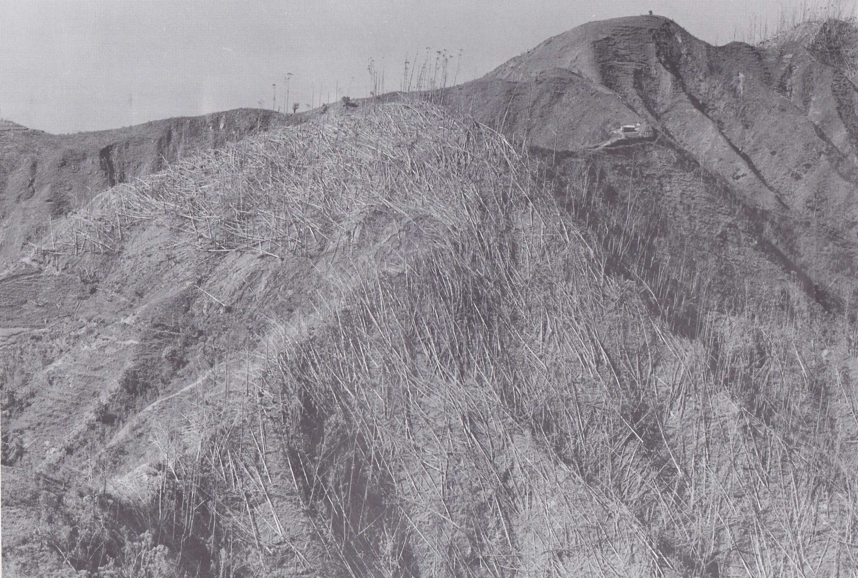 damage after hurricane Gilbert struck Jamaica on sept 12 1988